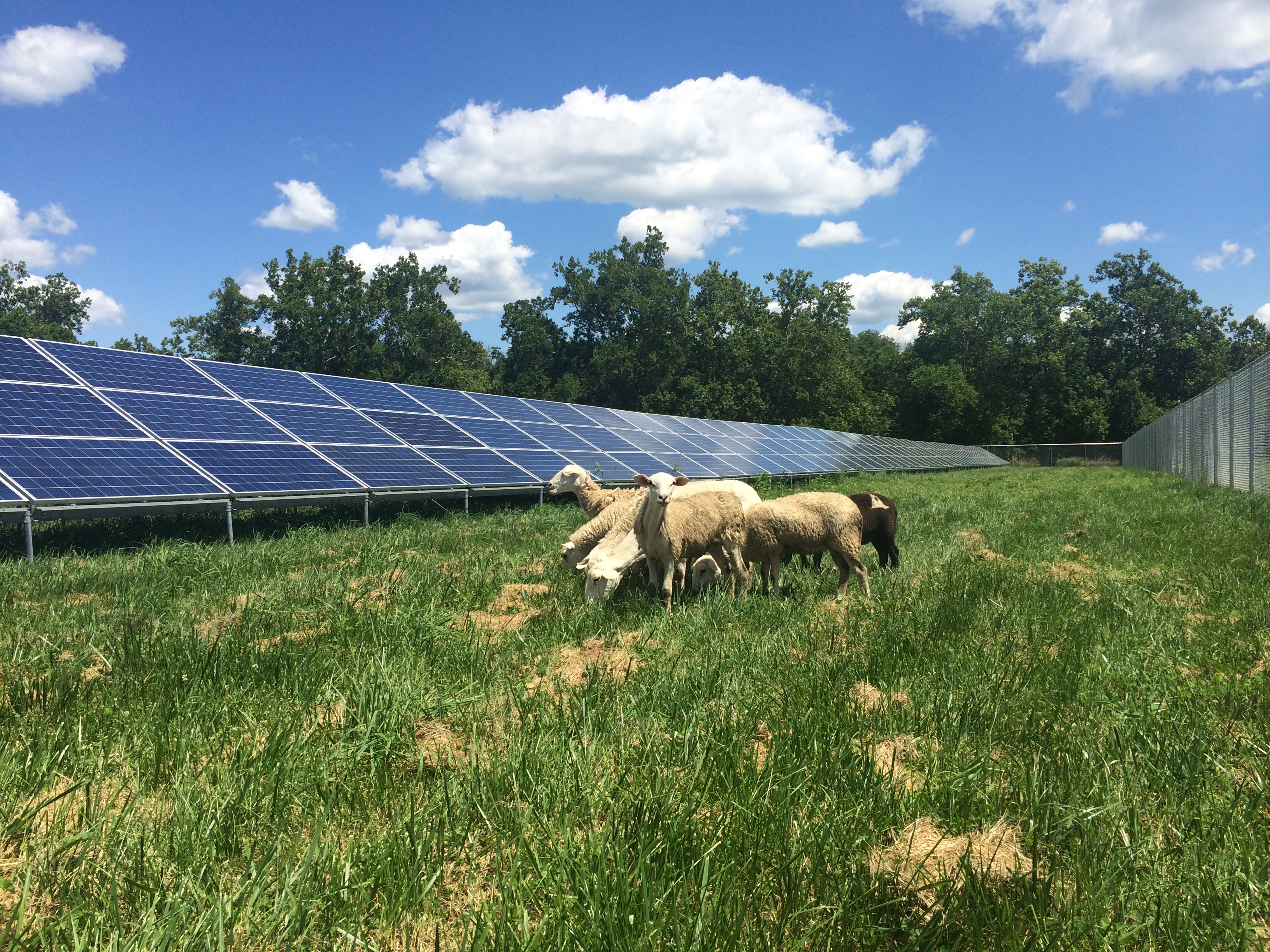 Solar array in the Antioch College South Campus, near the farm. Sheep included.